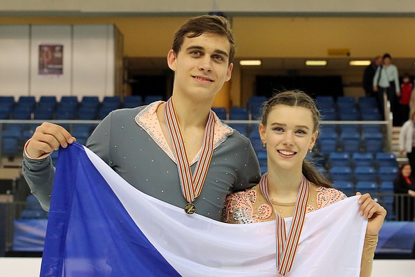 Anna Dušková and Martin Bidař - 2016 Junior Worlds